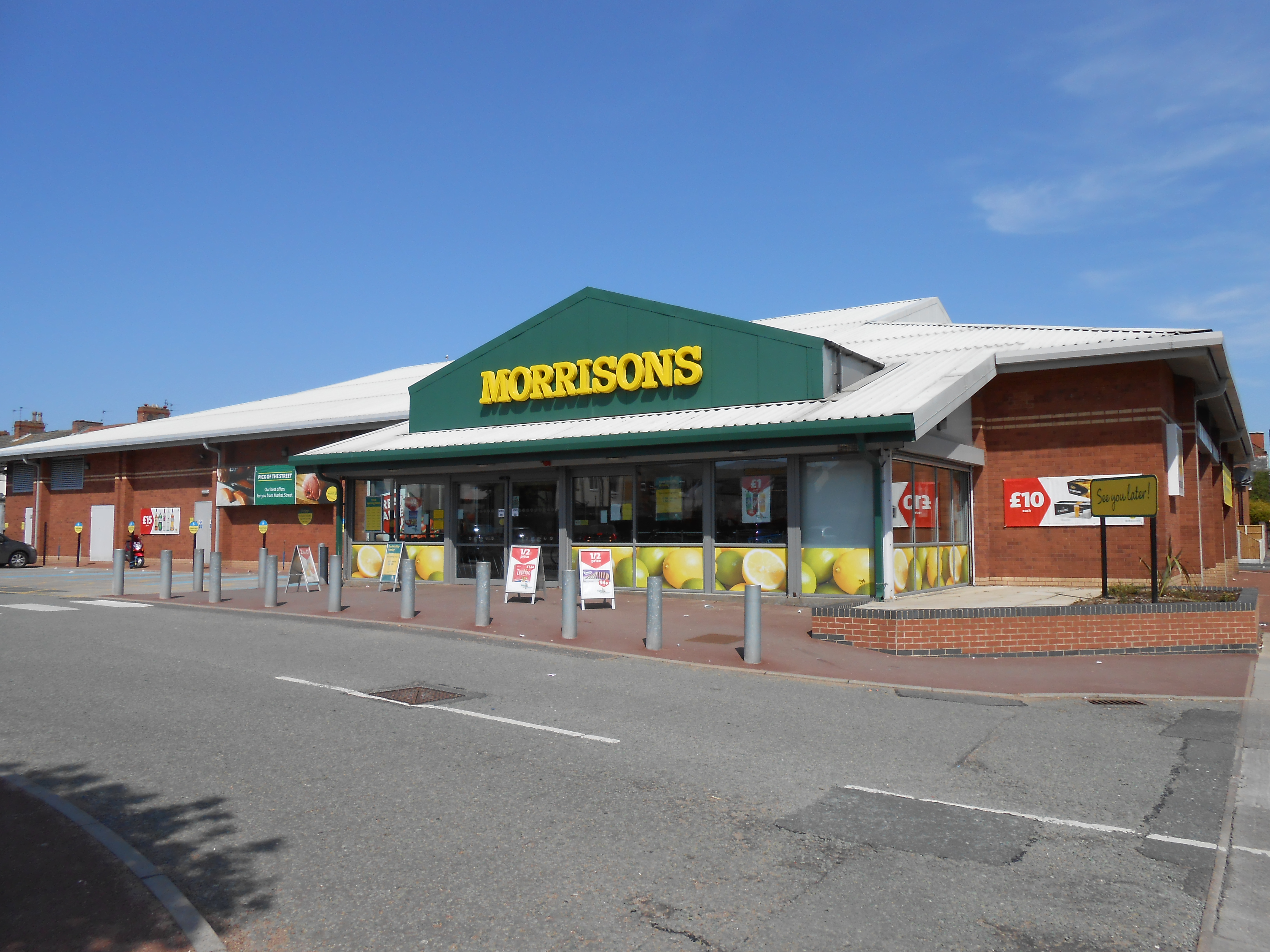 Morrisons Supermarket, Church Road, Seacombe, Wallasey, Wirral, Merseyside, England.